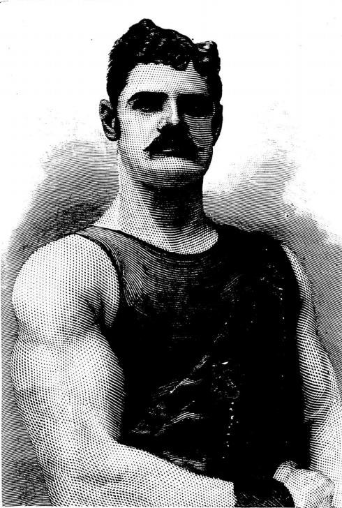 Oscar B. Wahlund, a modern Samson, of Sweden, who has astonished the crowned heads of Europe by his wonderful feats of strength.